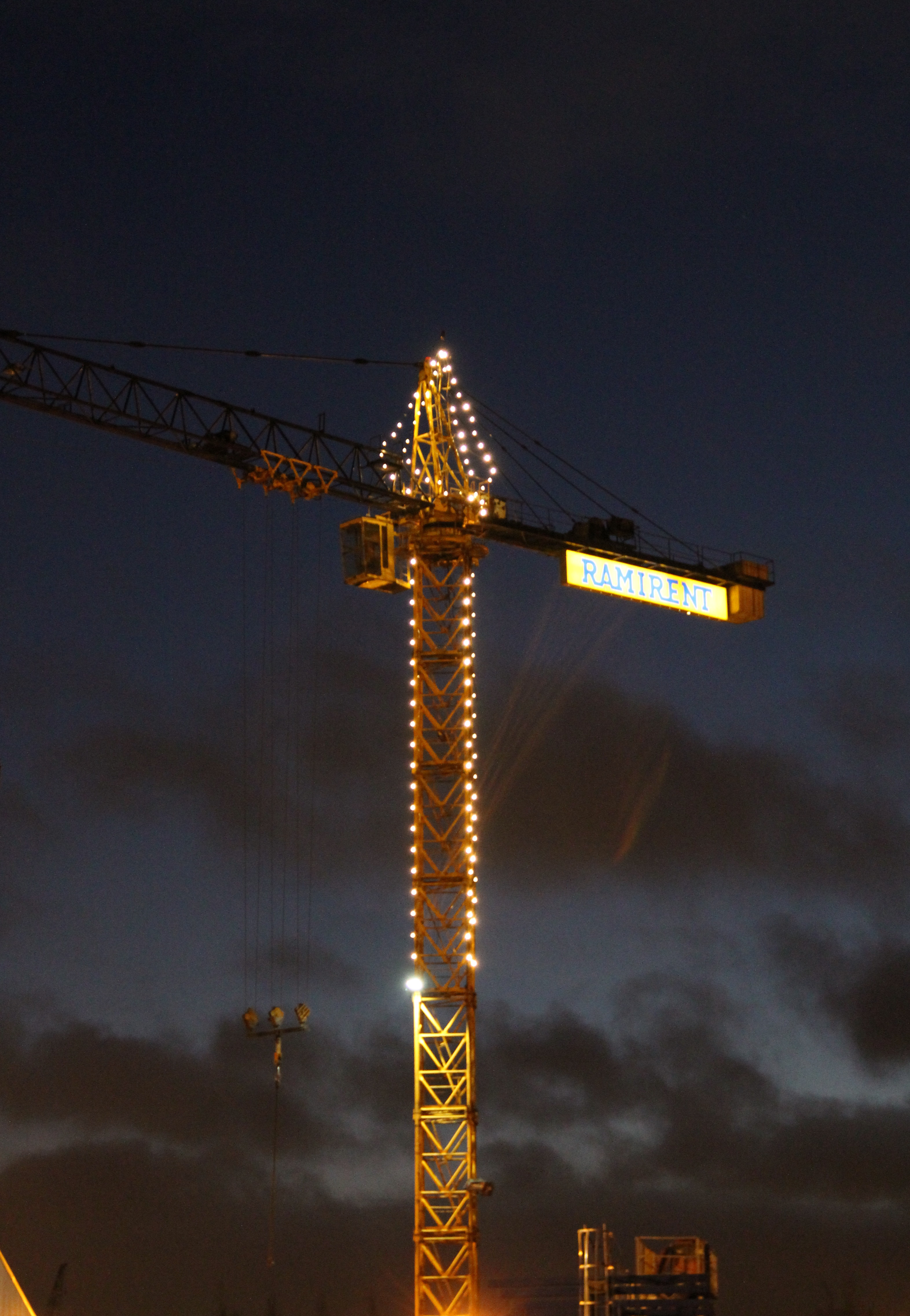 A tower crane, illuminated as a christmas tree, at Ramirent equipment rental company headquarters in Siltamäki, Helsinki, Finland.